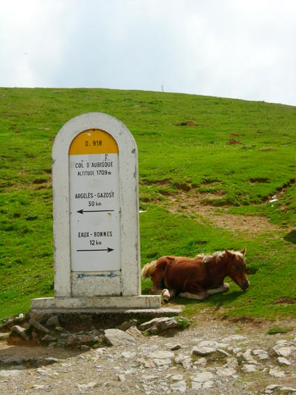 Col d'Aubisque (1709 m), mountain pass in the Pyrenees